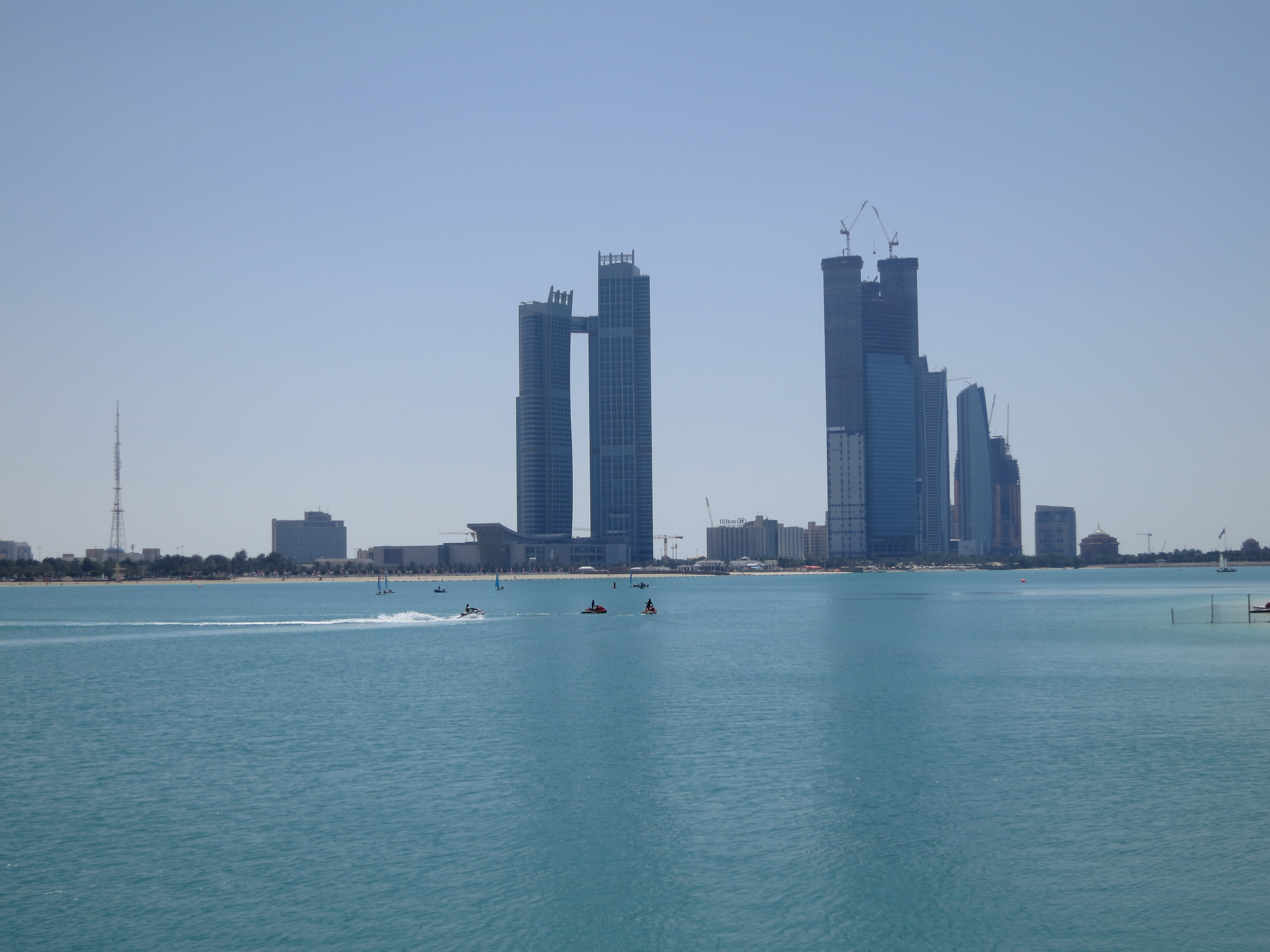 Skyscrapers at West Corniche Rd. Abu Dhabi. Etihad Towers at the right.